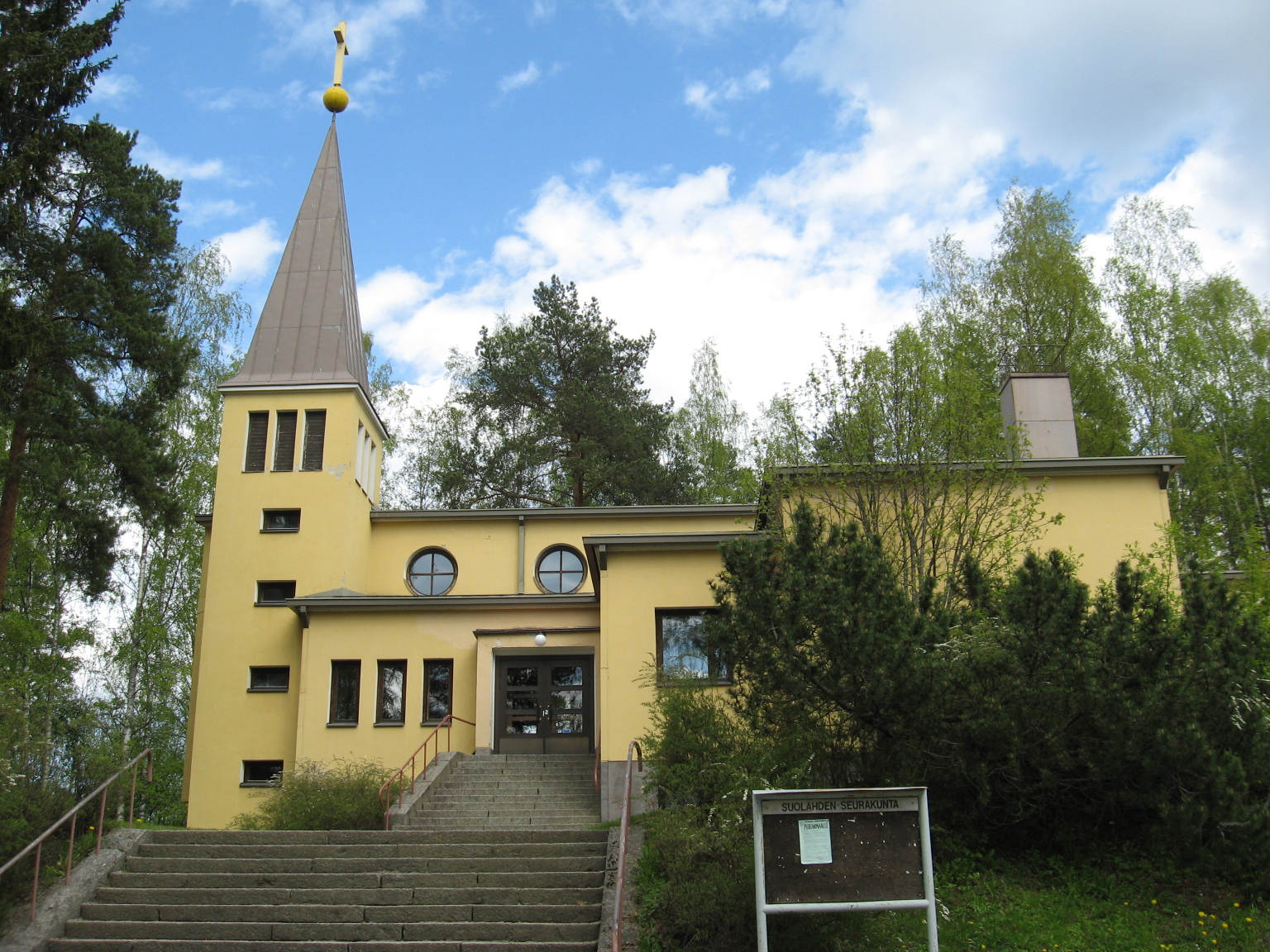 Church of Suolahti in Äänekoski, Finland (May 24, 2008)